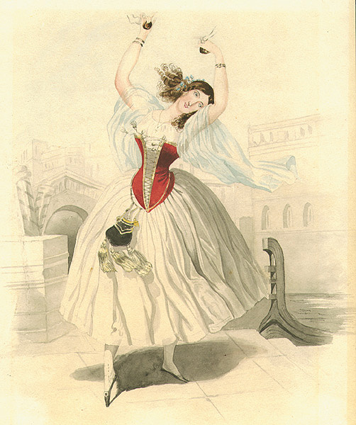 Portrait of Fitzjames ca. 1840